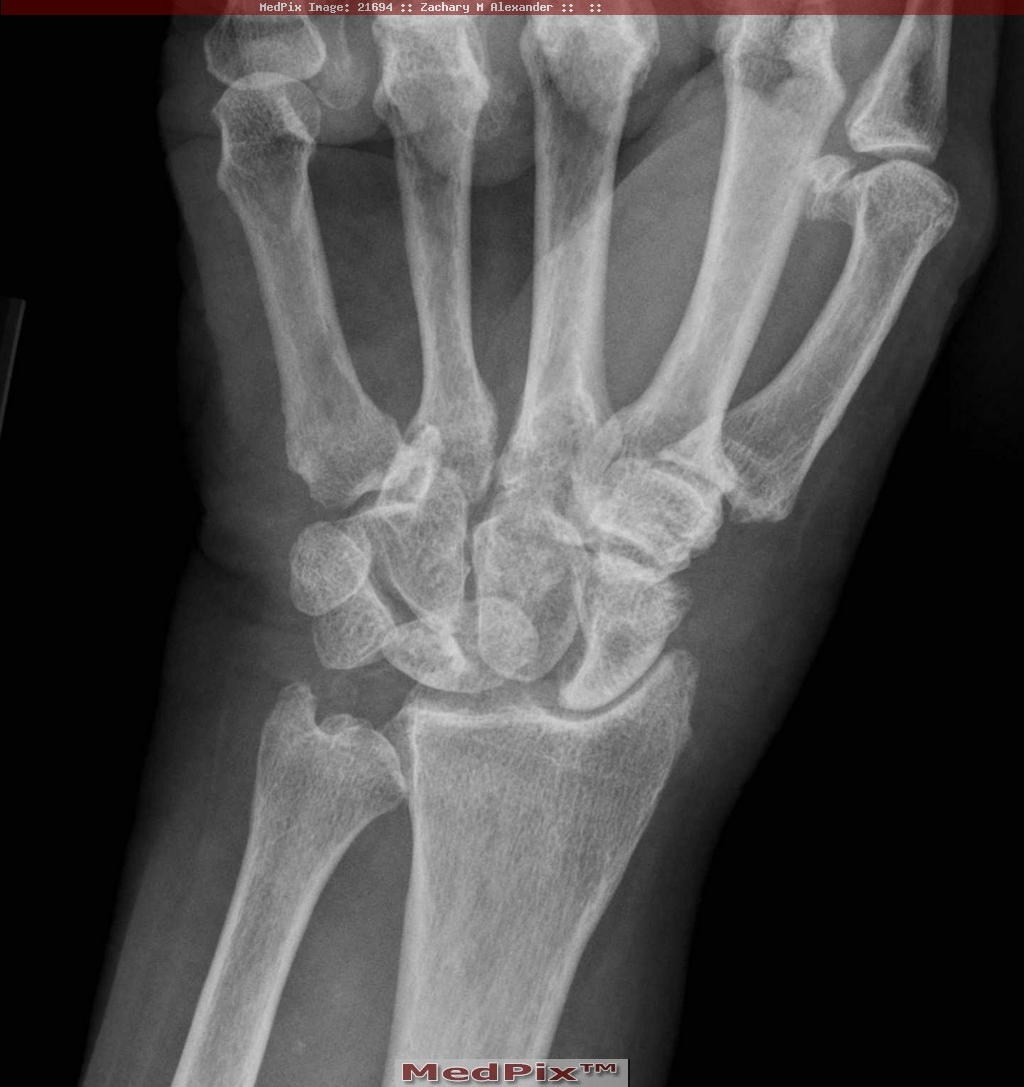 Lateral view of the wrist demonstrates increased scapholunate angle, dorsal tilt of the lunate, and proximal migration of the capitate.